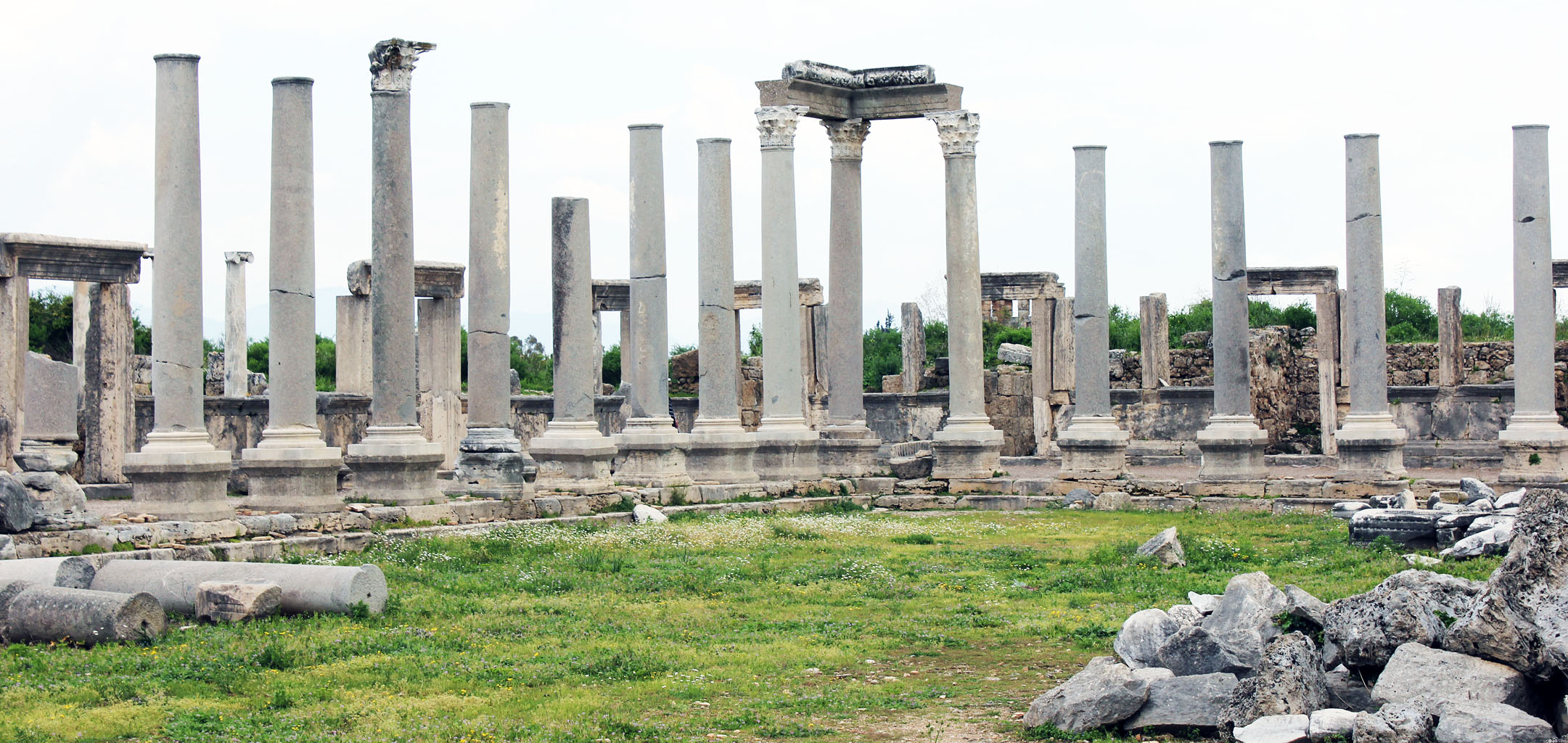 Perga, Agora. Photograph 1.